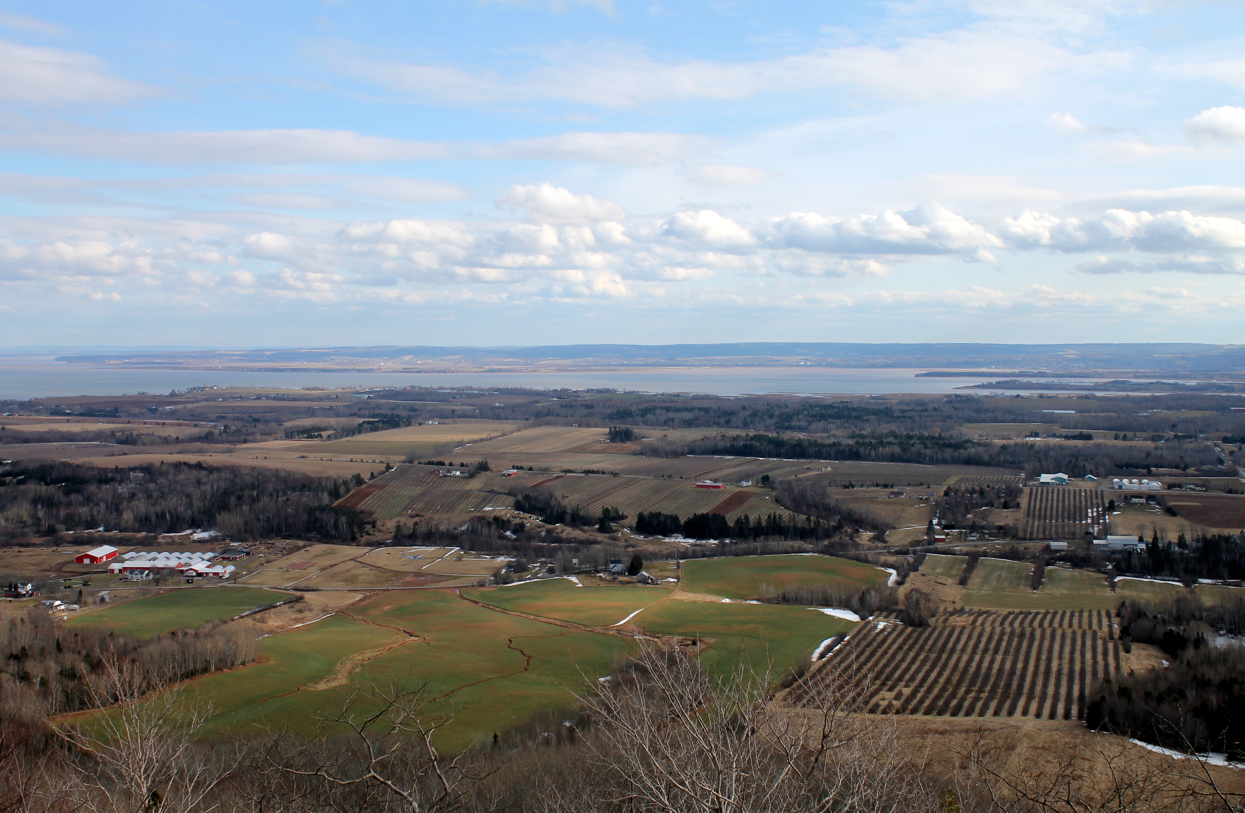 Overlooking Minas Basin & the end of Annapolis Valley